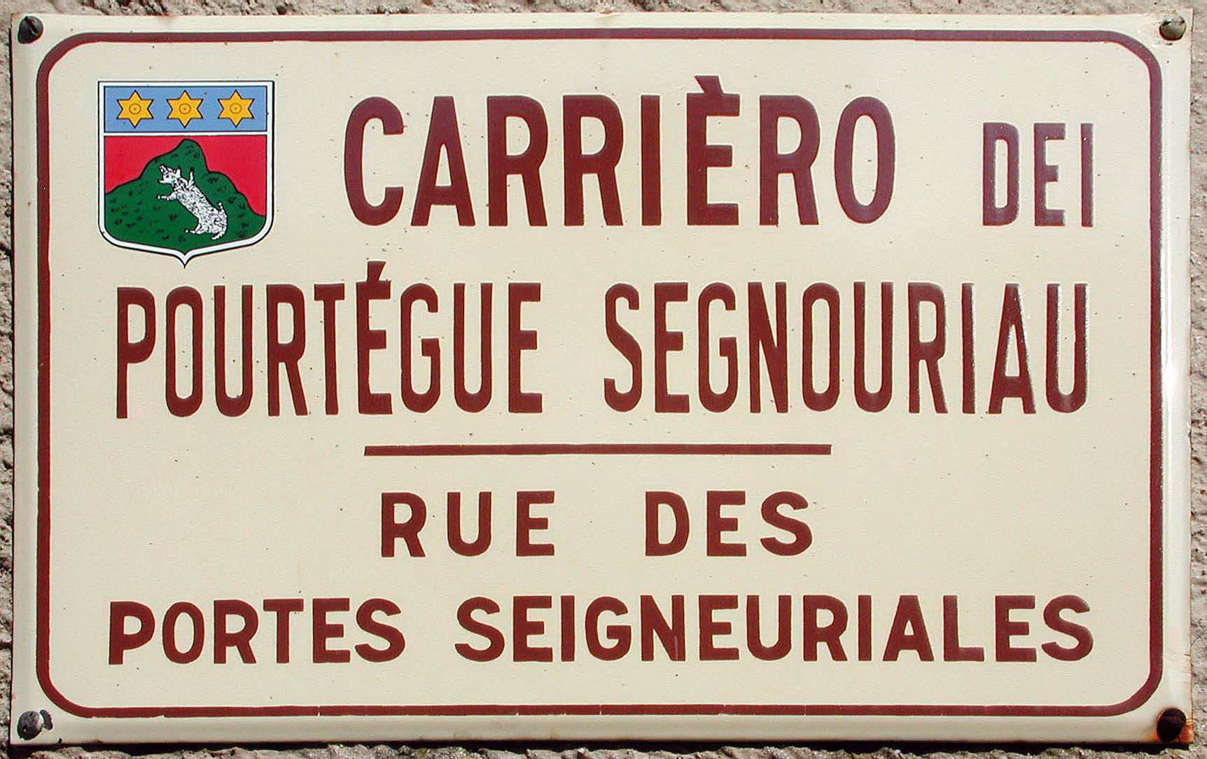 Var(Mons) Provençal street signs